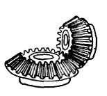 Bevel gears